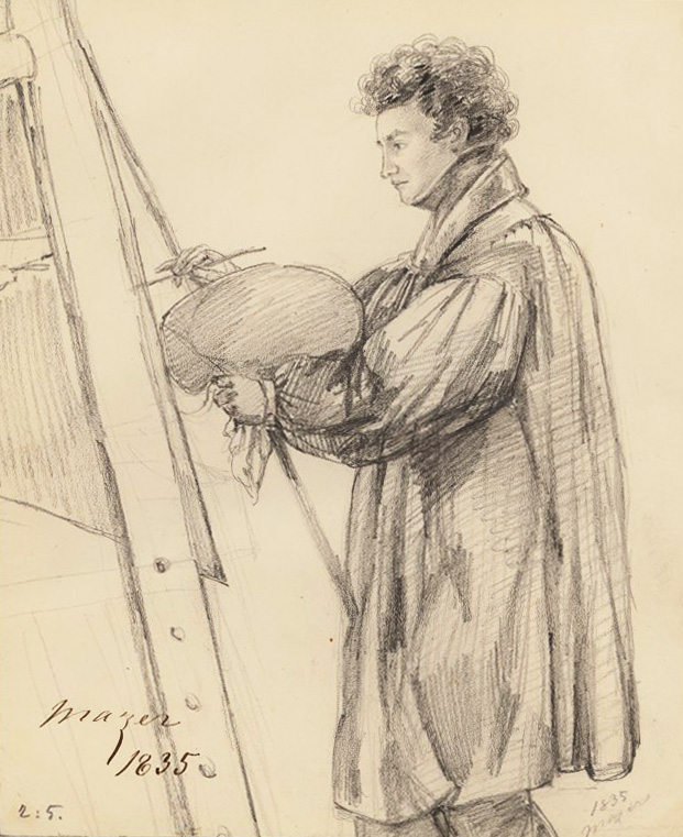 Carl Peter Mazer (1807-1884) in his studio